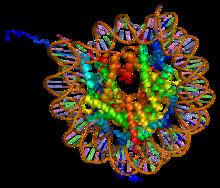 Structure of the H2AFJ protein